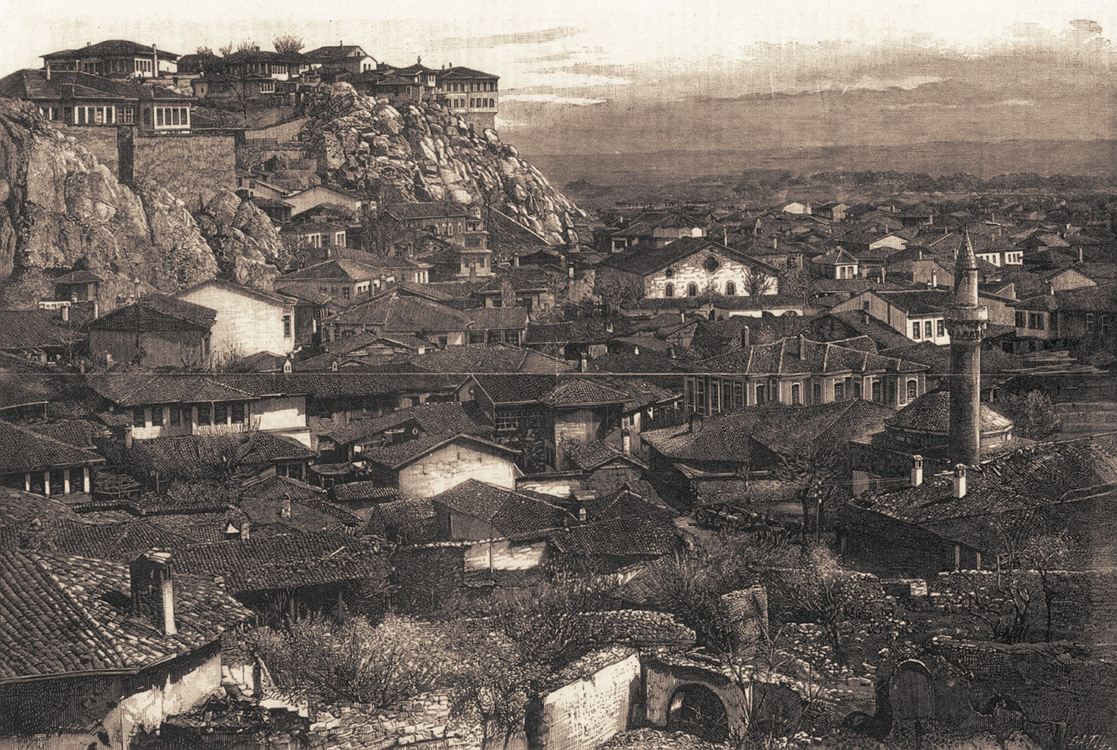 Philippopol - North Part. Print